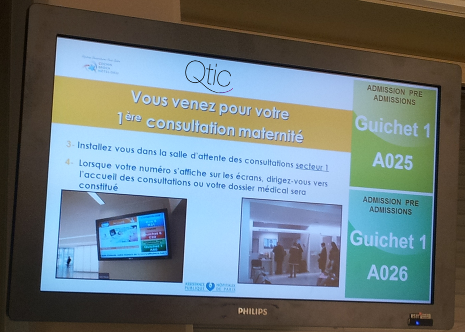 Aufrufanlage Hopital Cochin Paris